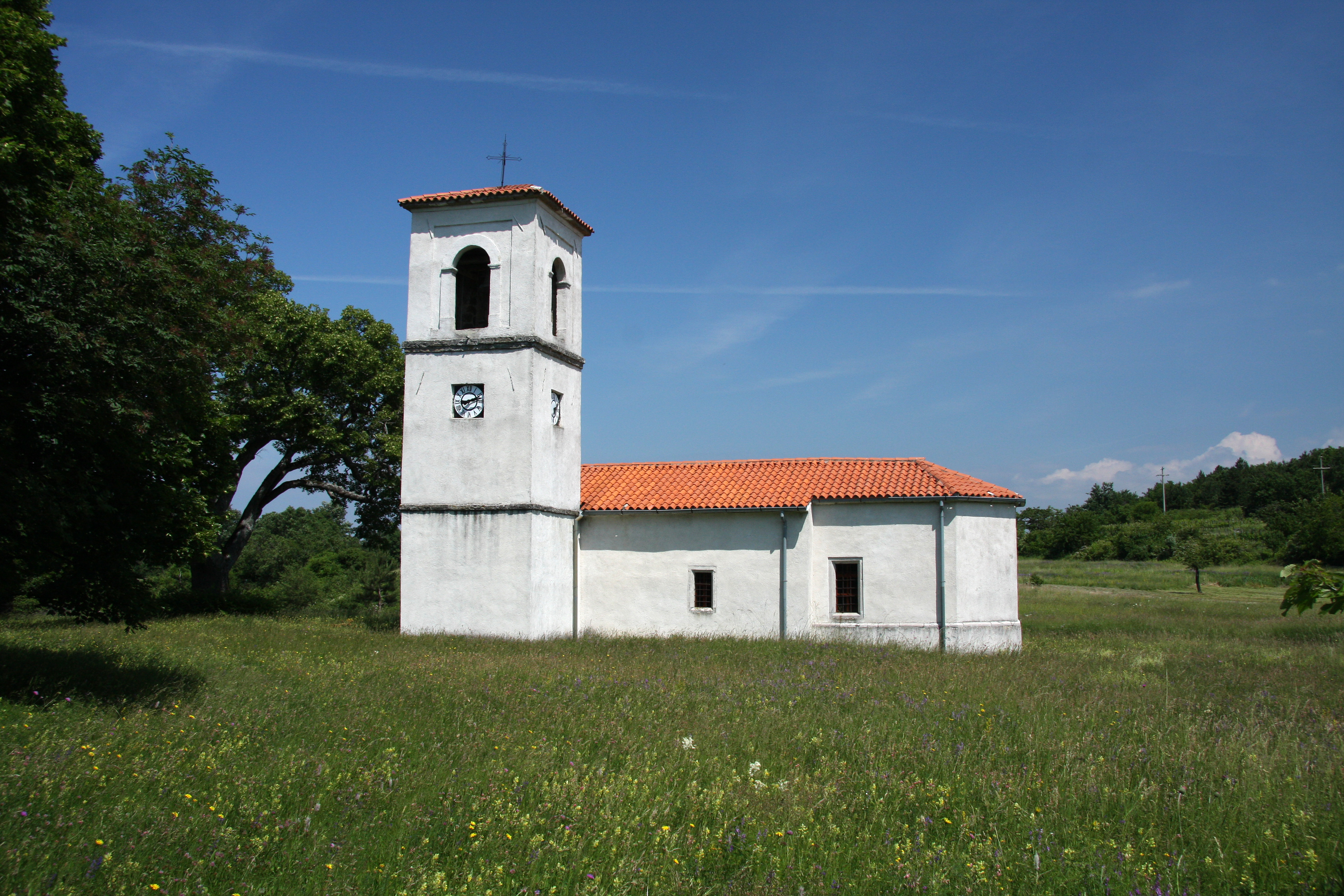 Church in Petrinje, Slovenia.